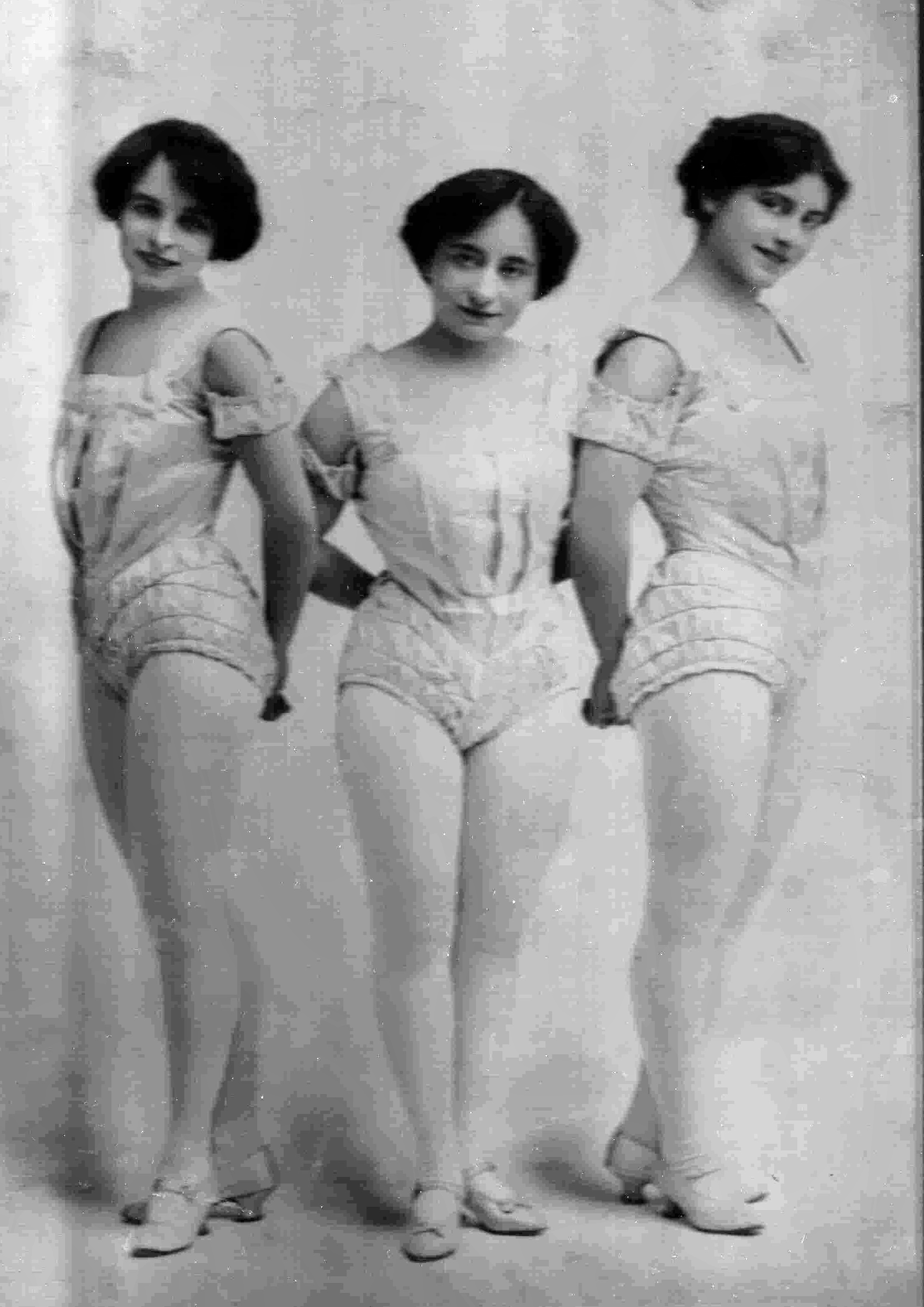 The high wire and strongwoman act Macarte Sisters c1910